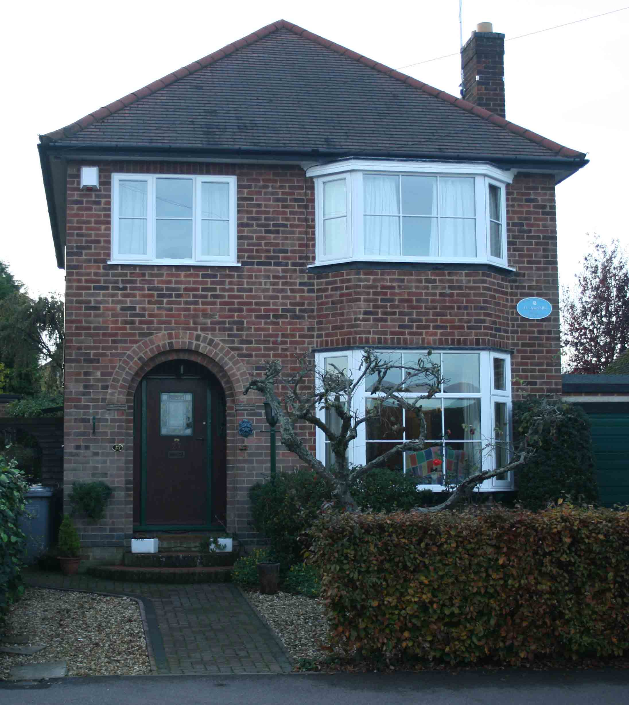 Photograph of the house in Kettering where the Quince Tree Press was established by the writer and publisher J L Carr. The house is marked by a blue plaque to celebrate JL Carr, so it is publically marked as a site of special interest